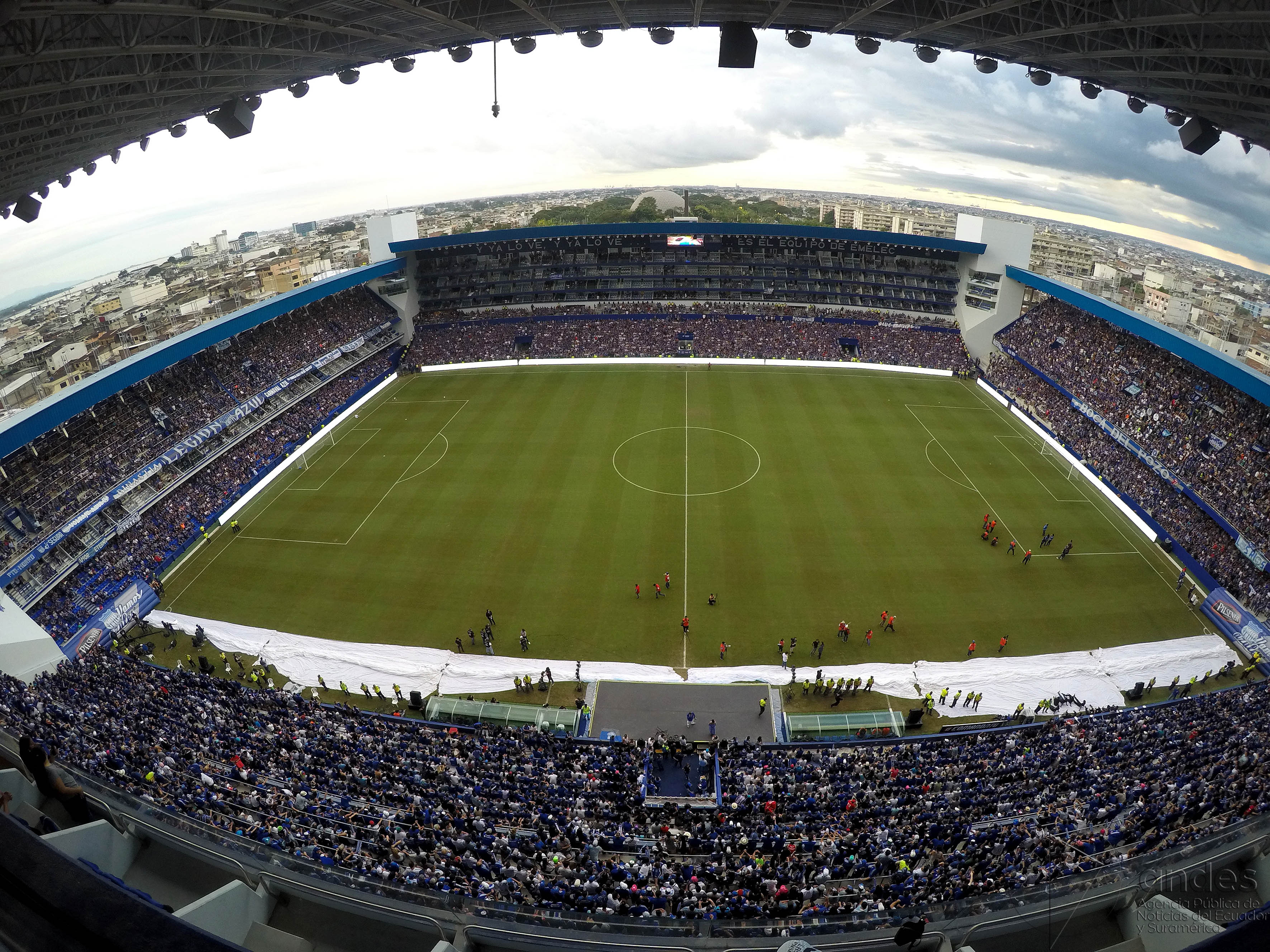 Guayaquil, miércoles 08 de febrero del 2017 (Andes).-Con una capacidad para cerca de 40 mil espectadores, sistemas tecnológicos y nuevo estilo arquitéctonico se reinaguró el estadio Arena Banco del Pacifico-Capwell.Foto:Andes/César Muñoz